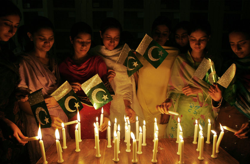 Celebration on midnight (Pakistan independence)